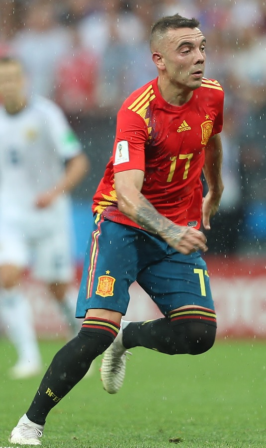 Iago Aspas playing for Spain in a 2018 FIFA World Cup game against Russia.